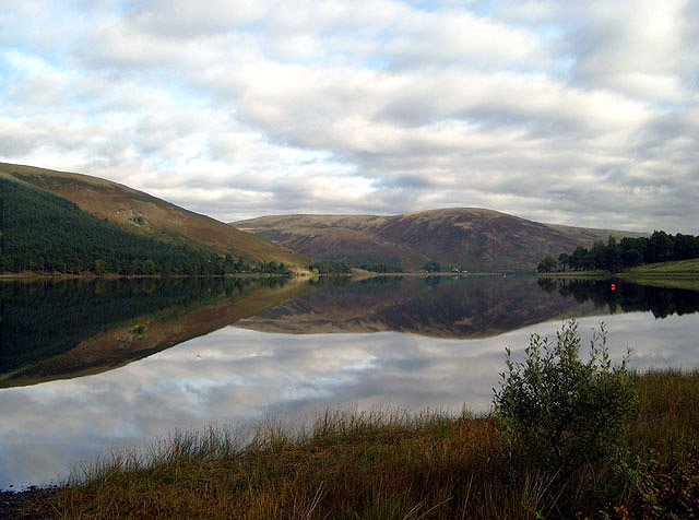 St. Mary's Loch. From near Tibbie Shiels, looking north.